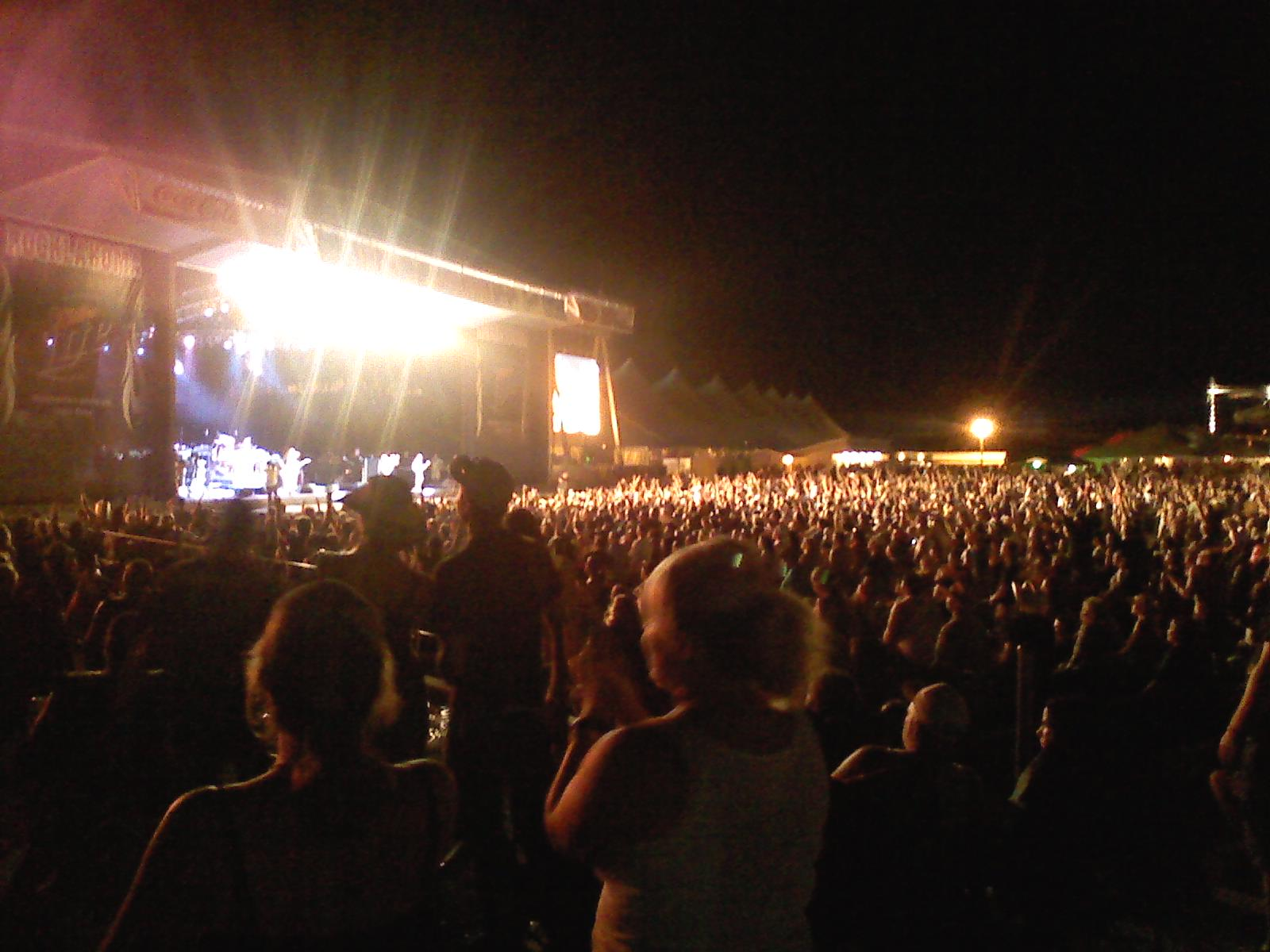 A photo from Rocklahoma 2008 of Sebastian Bach playing Youth Gone Wild, taken on an LG Vu.